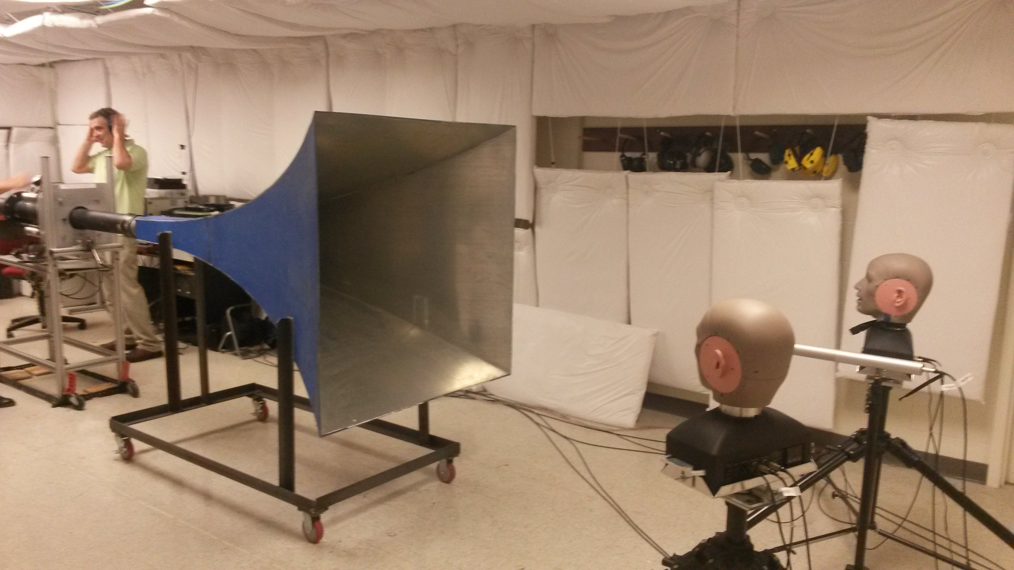 NIOSH Impulse Noise Laboratory showing shocktube and artificial head fixtures used for testing hearing protectors